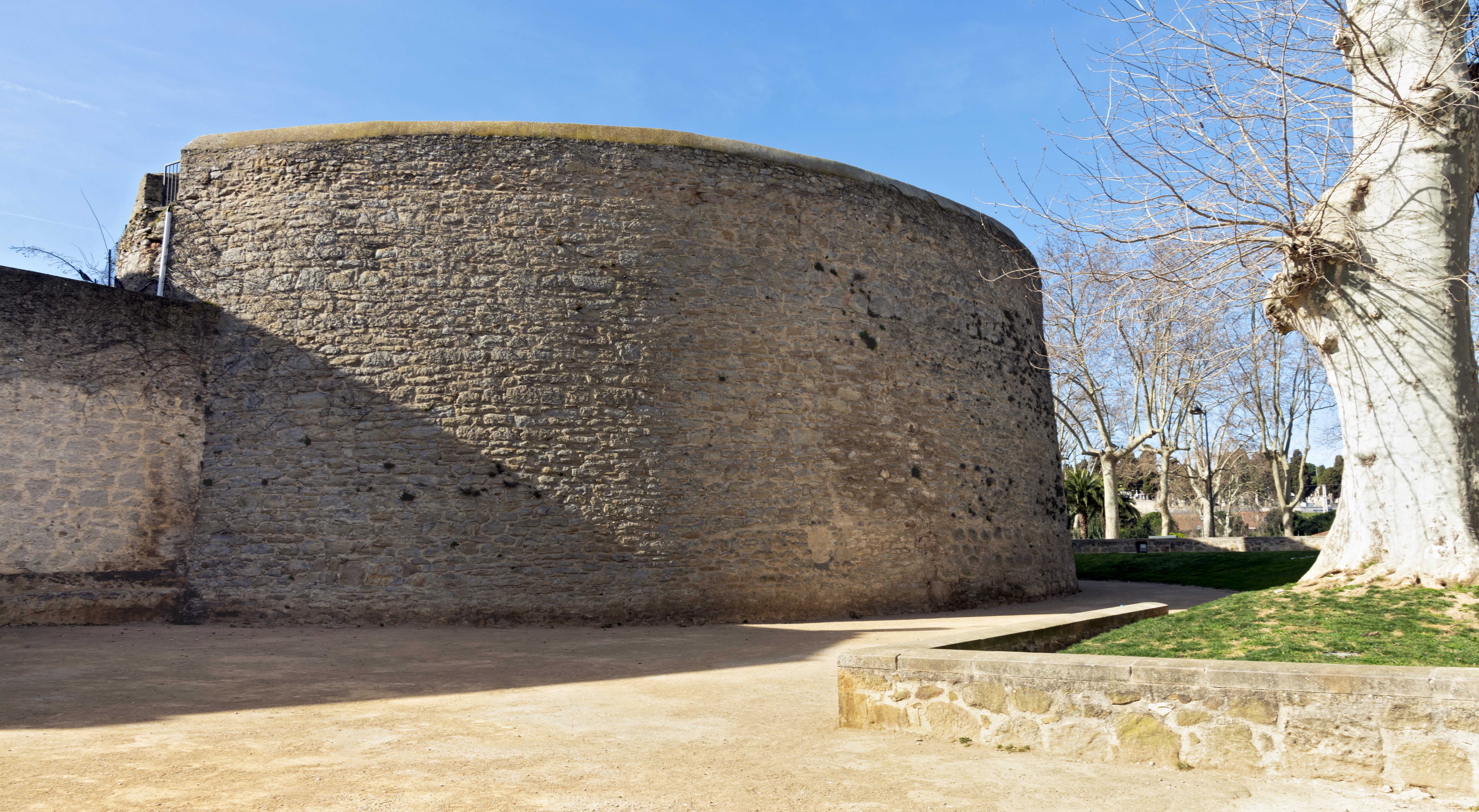 Rampart of the Bastide Saint-Louis (Saint-Martial Bastion)